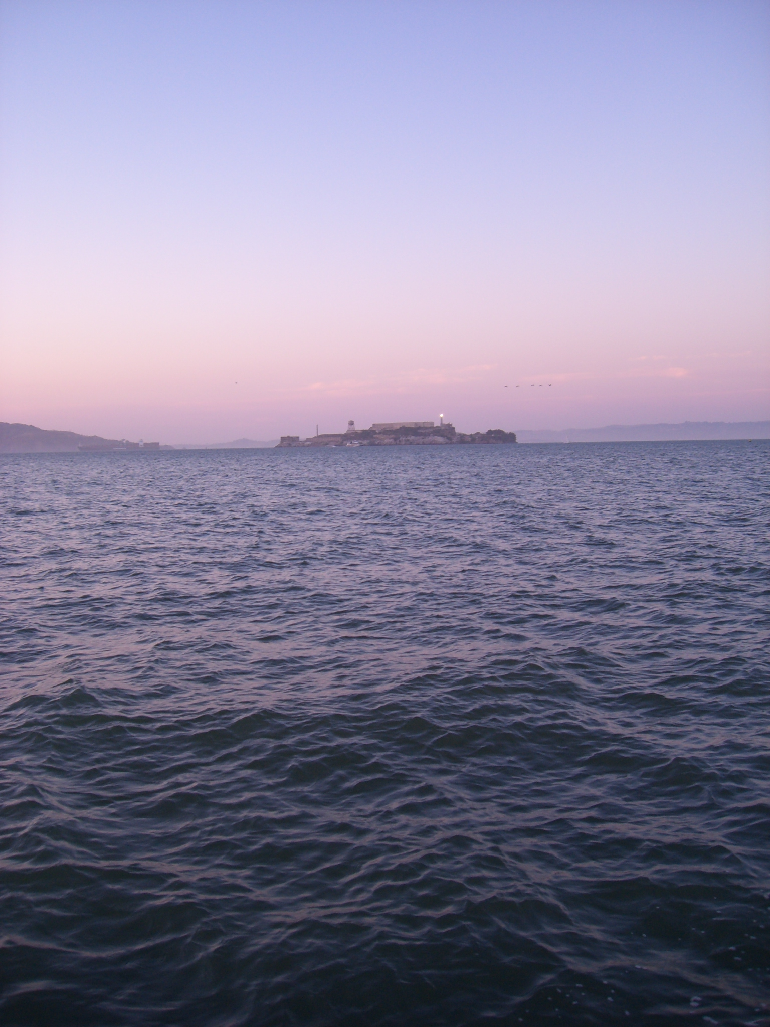 Alcatraz Island over San Francisco Bay as viewed from Marina Green. Taken around 8:15pm local time.